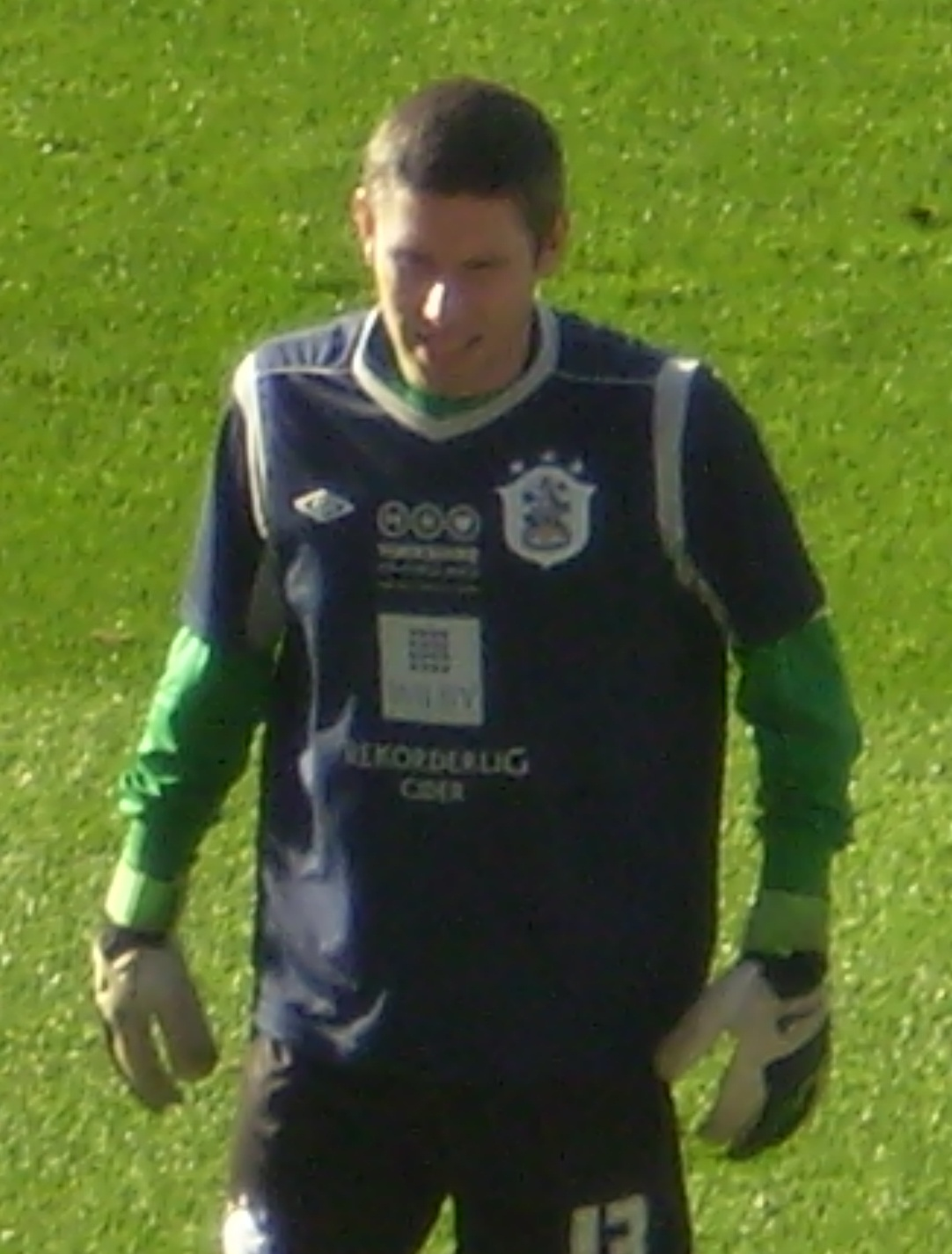 Ian Bennett of Huddersfield Town F.C. warms up at half-time against Birmingham City at St Andrew's, Birmingham in October 2012